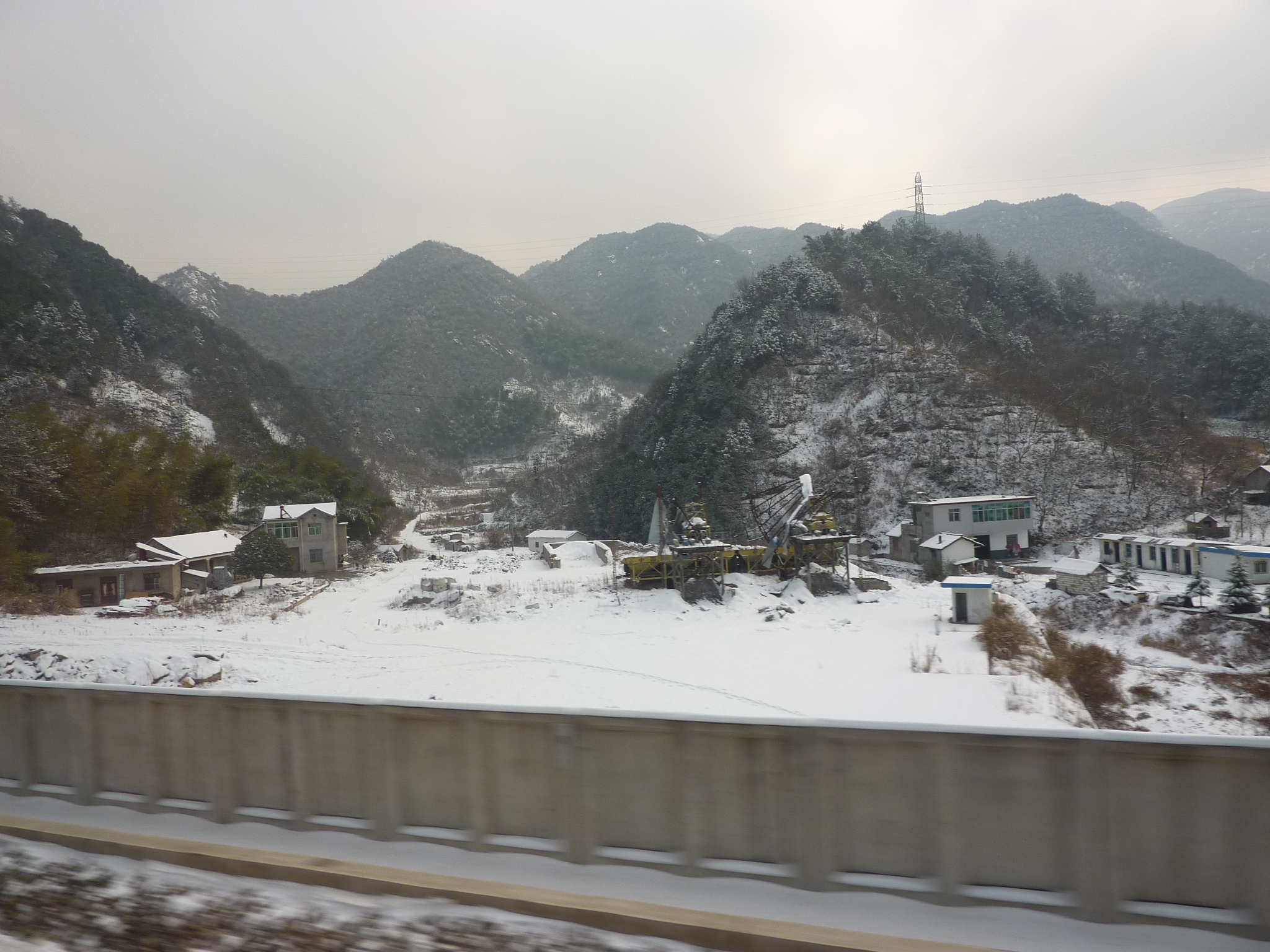 Mountainous landscapes (Dabie Mountains) of Jinzhai County, Anhui, seen form a train running on the Hewu (Henan-Wuhan) Railway.